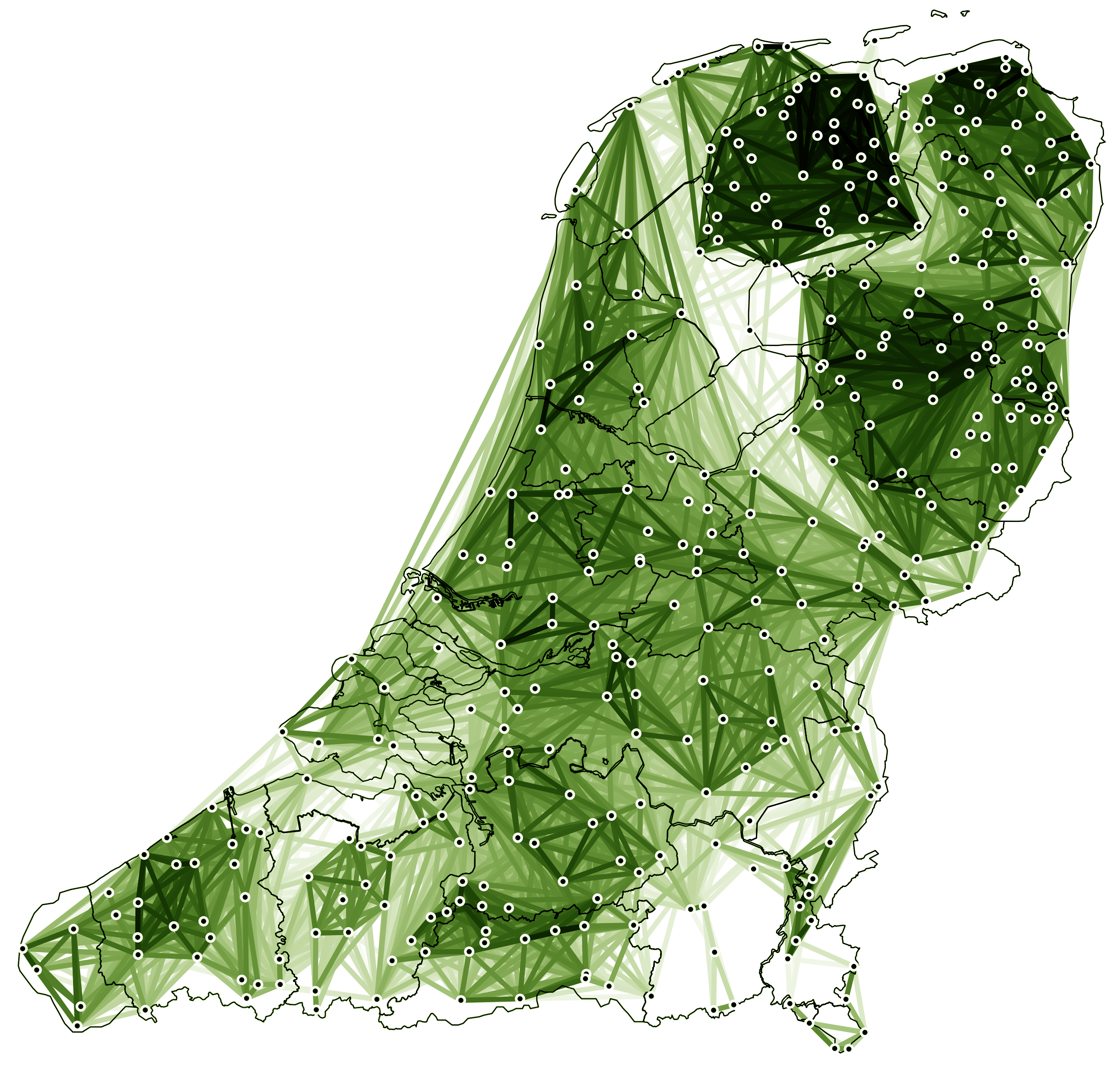 Map showing the relative Levenshtein distances between Germanic dialects spoken in the Netherlands. Map based on: Heeringa, W. J. (2004). Measuring Dialect Pronunciation Differences using Levenshtein Distance. Groningen: s.n. and M.B. Wieling: Comparison of Dutch dialects, University of Groningen, 2007.